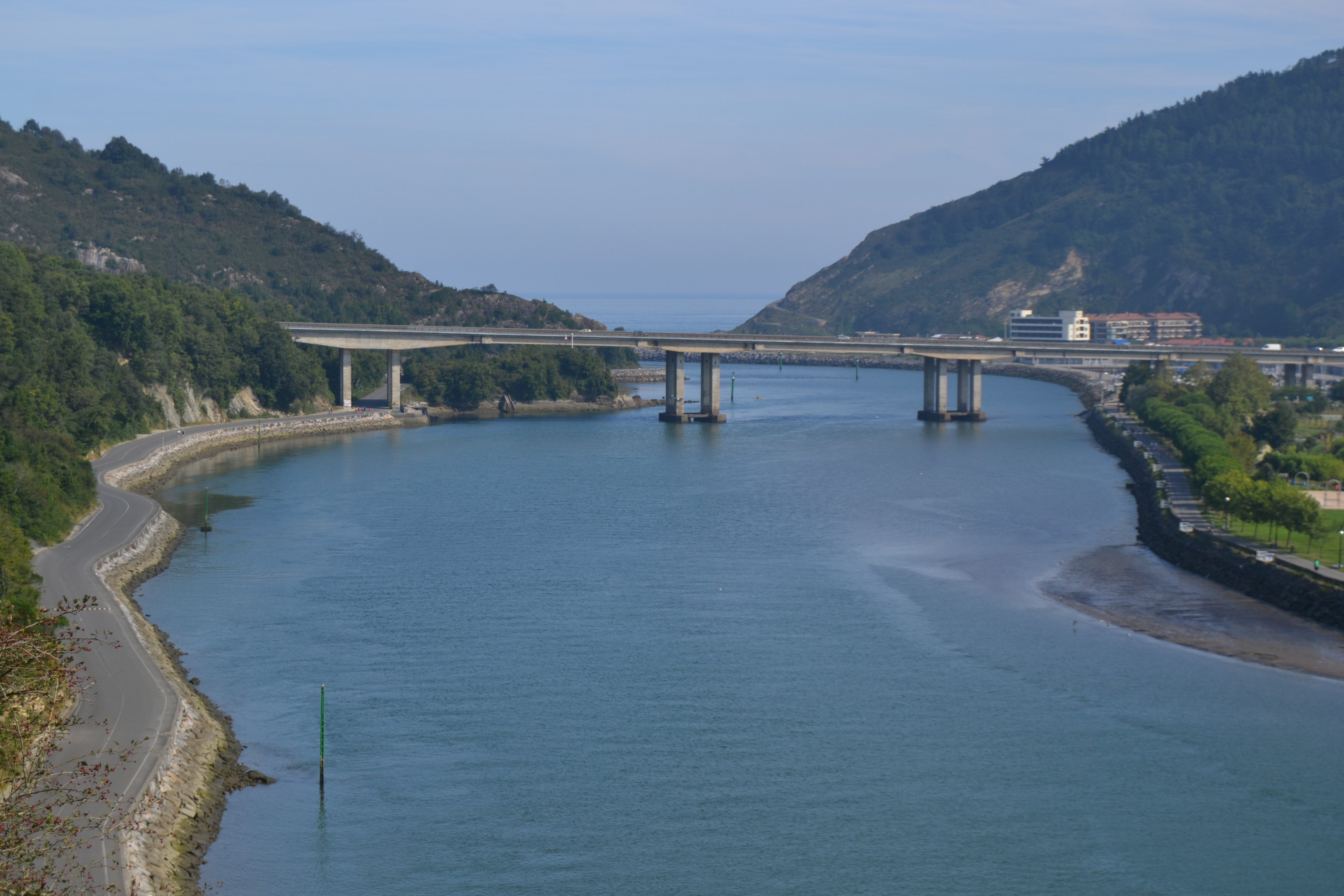 A-8 motorway's bridge in Orio. Gipuzkoa, Basque Country.